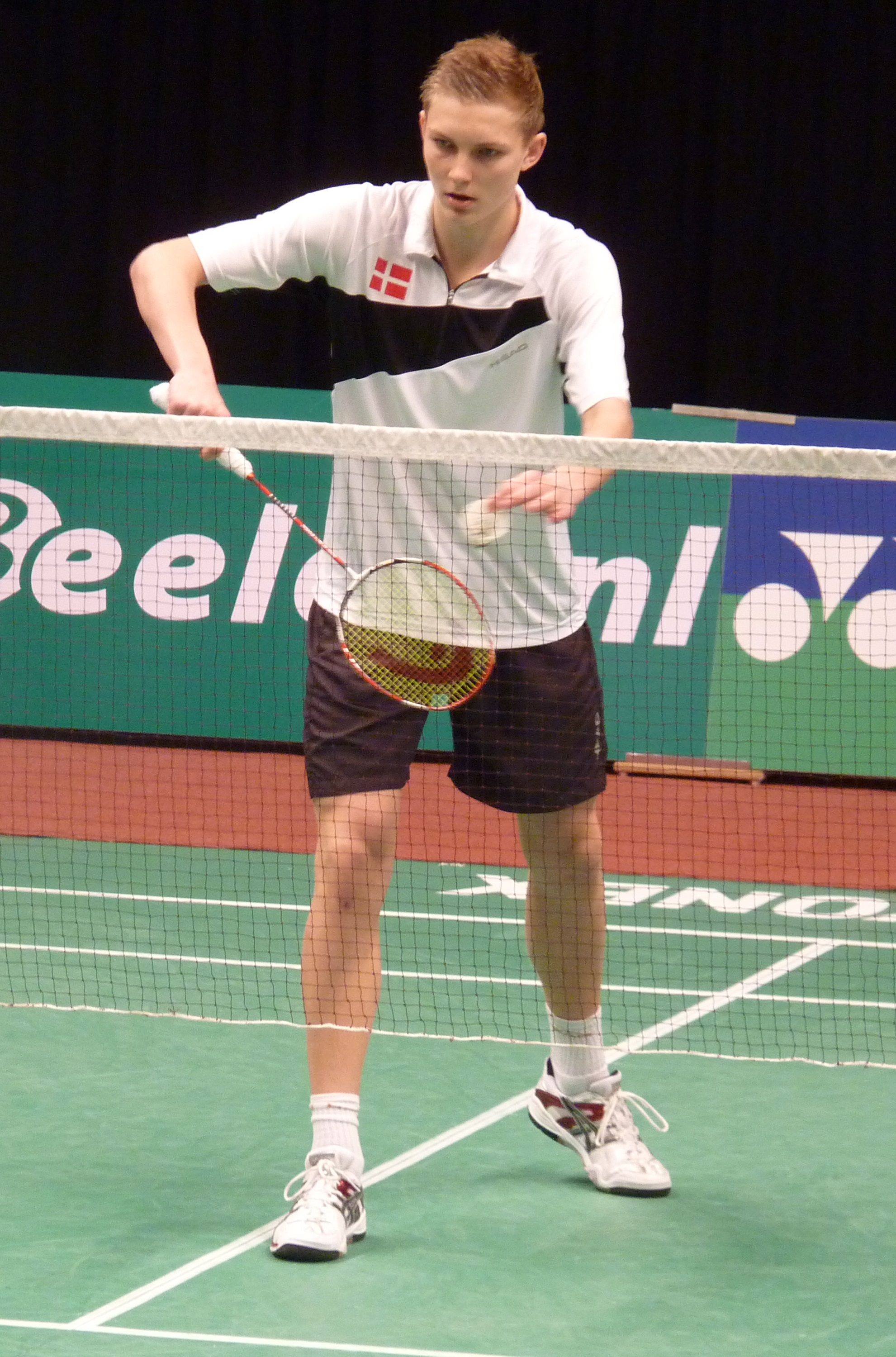 Victor Axelsen (DENMARK)